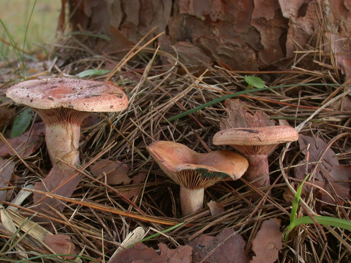 Three fruit-bodies of Lactarius hatsudake occurring on the ground under Pinus densiflora.